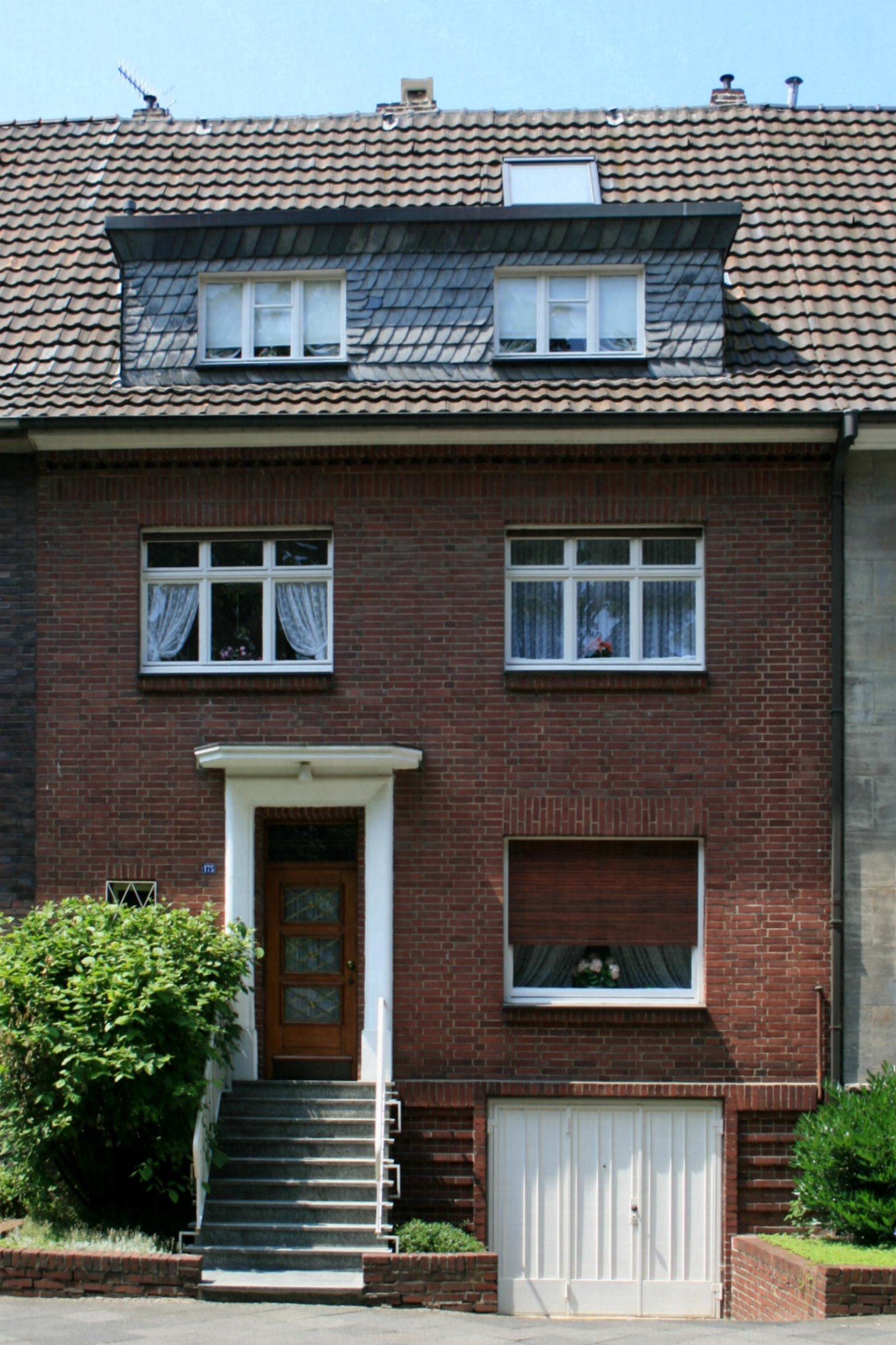 Cultural heritage monument No. B 029 in Mönchengladbach